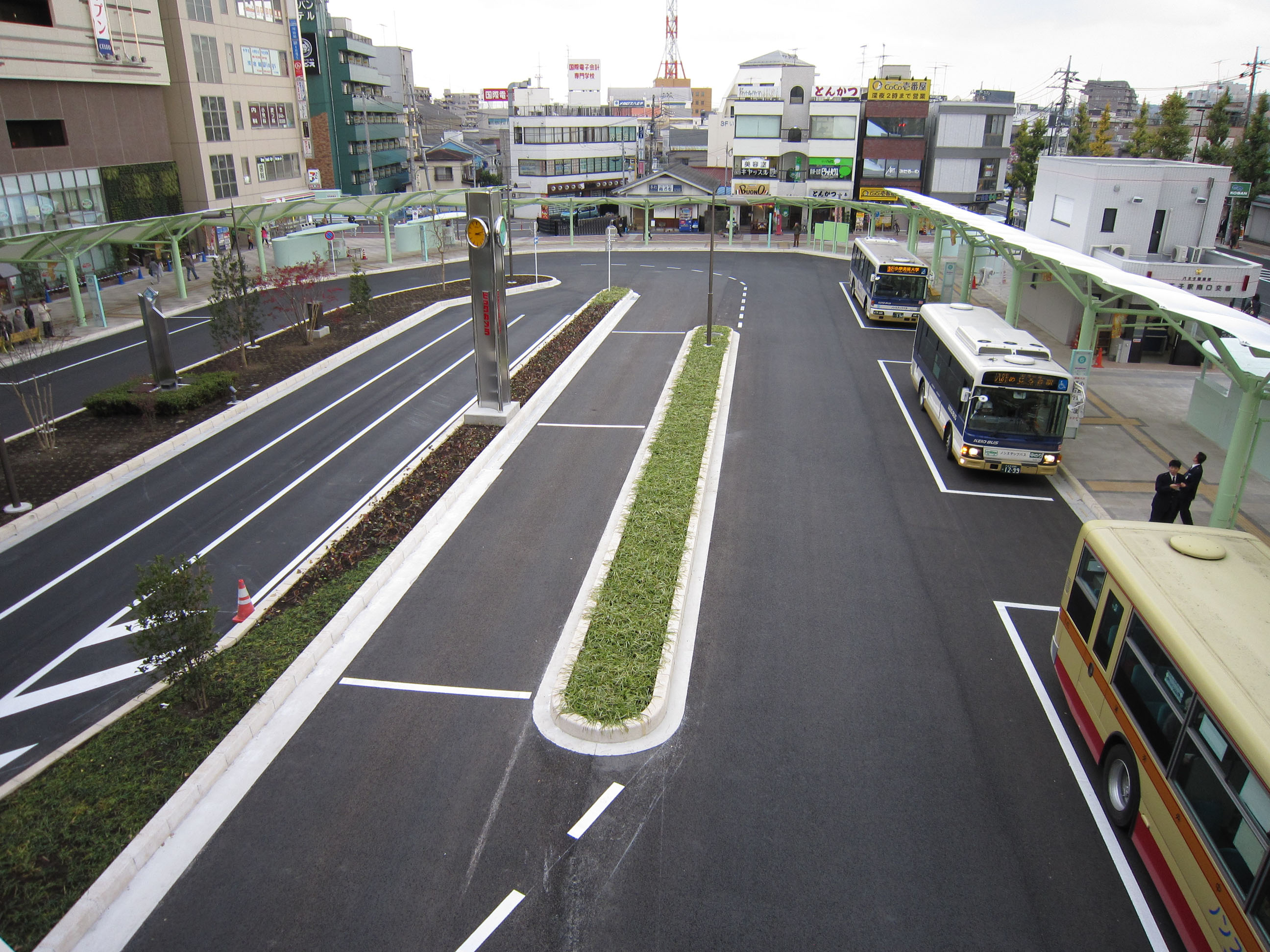 Hachioji Station South Bus Terminal, Hachioji, Tokyo, Japan